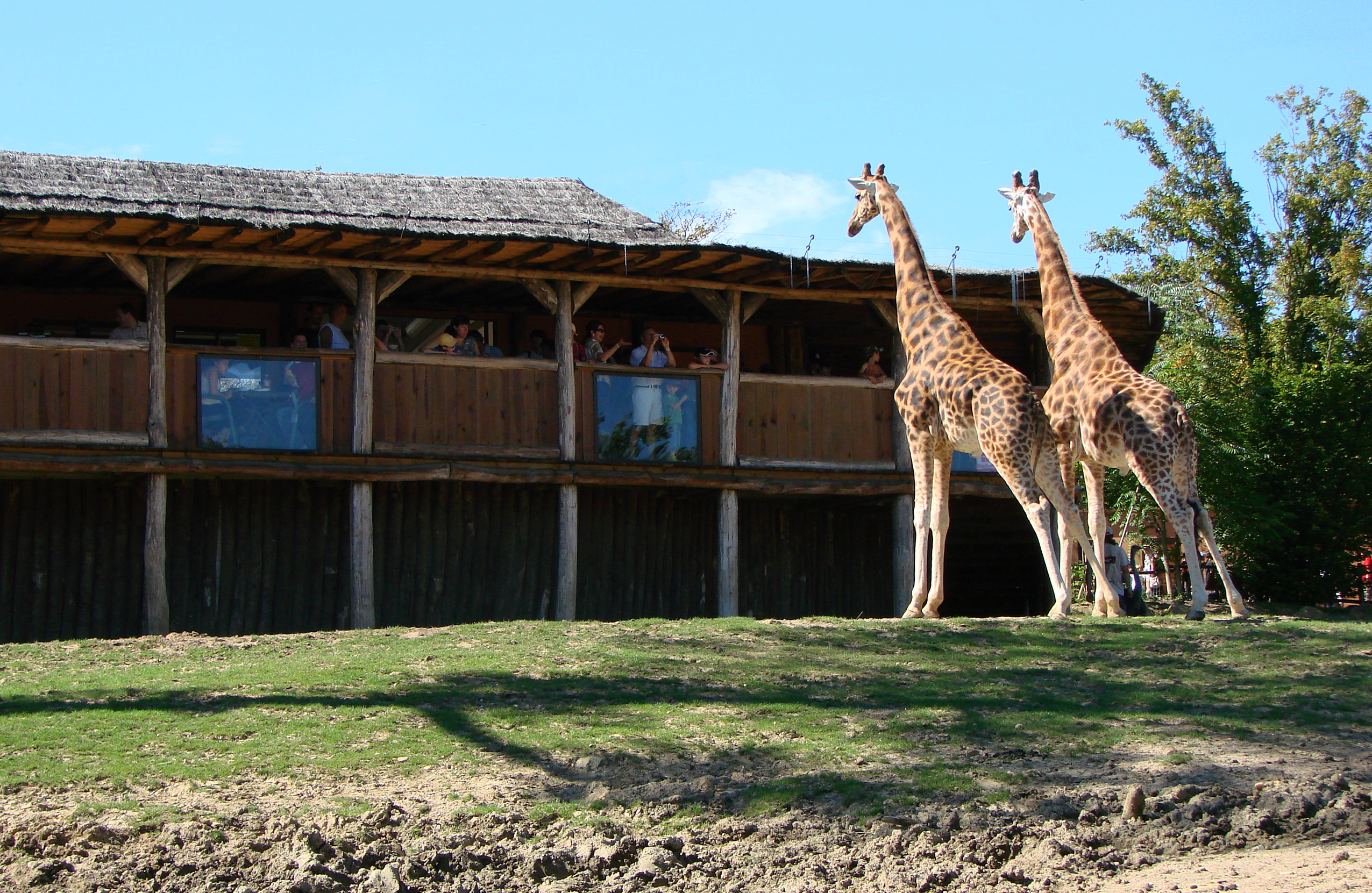 Installations of the Amnéville zoo: the "African savanna".